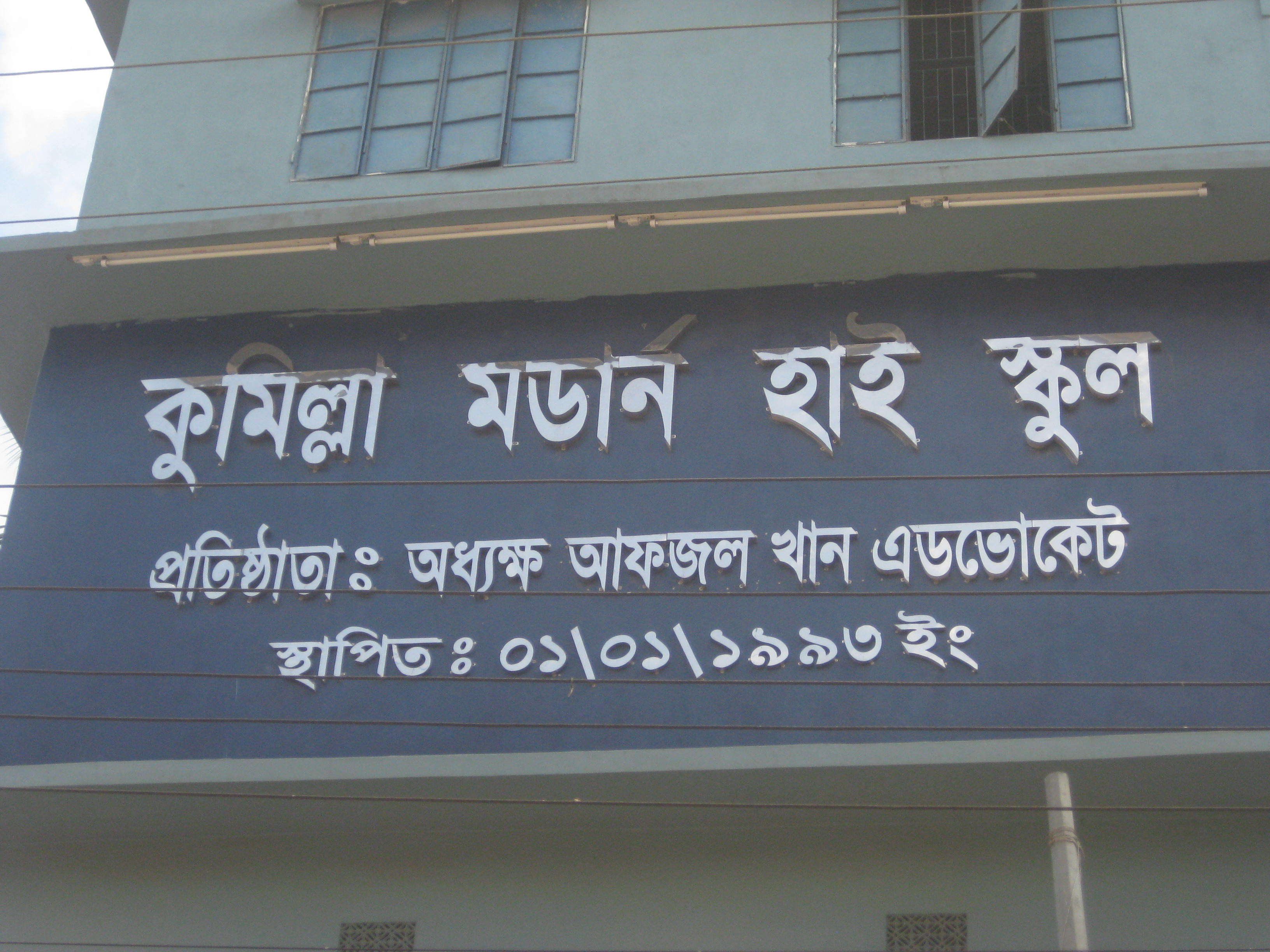 It is a wall boarding of school's name with blue background. The boarding has three rows including school's name, founder's name and date of foundation.